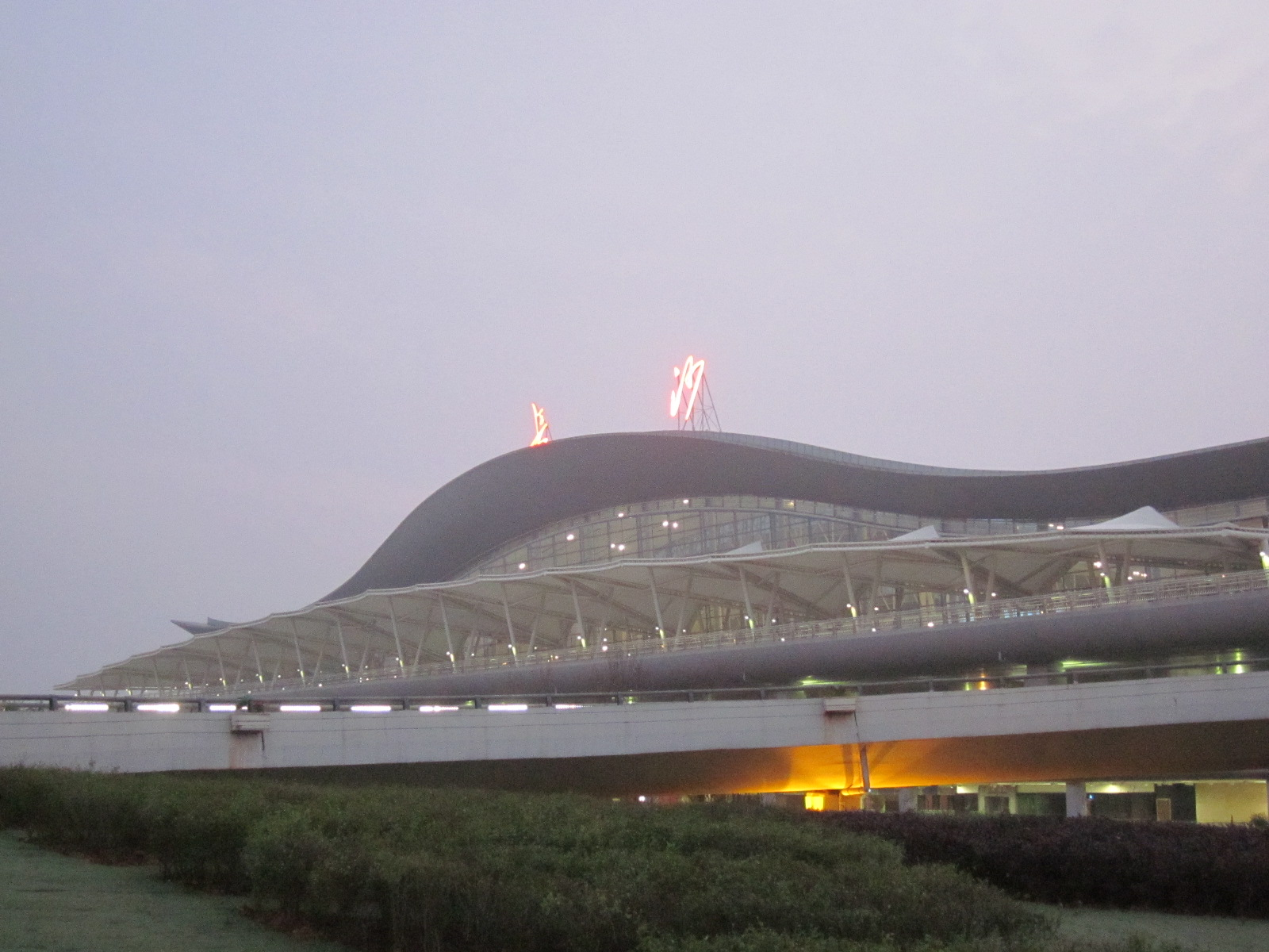 Changsha Huanghua International Airport